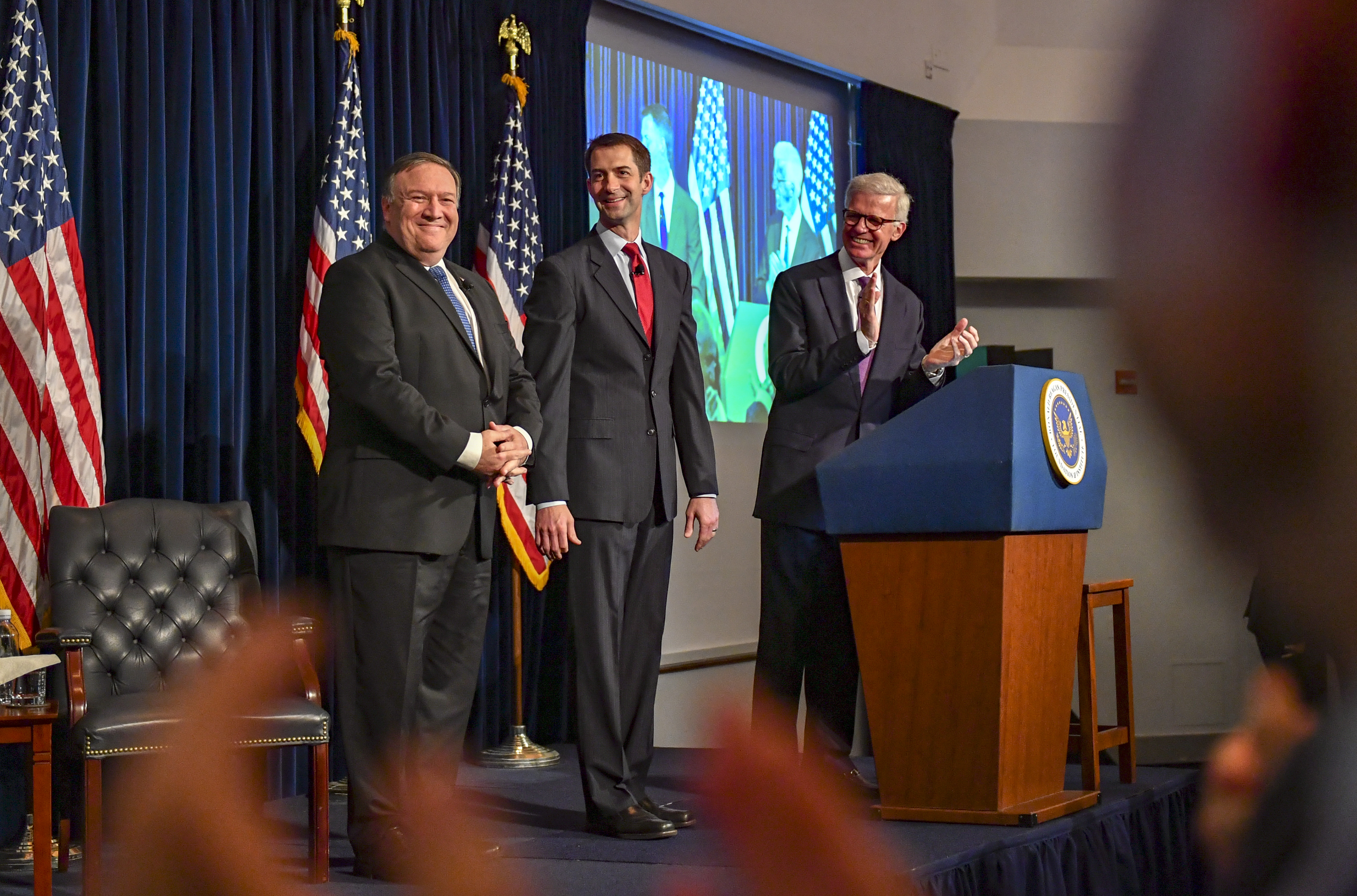 U.S. Secretary of State Michael R. Pompeo delivers remarks on "Supporting Iranian Voices” at the Ronald Reagan Presidential Library and Center for Public Affairs in Simi Valley, California on July 22, 2018.